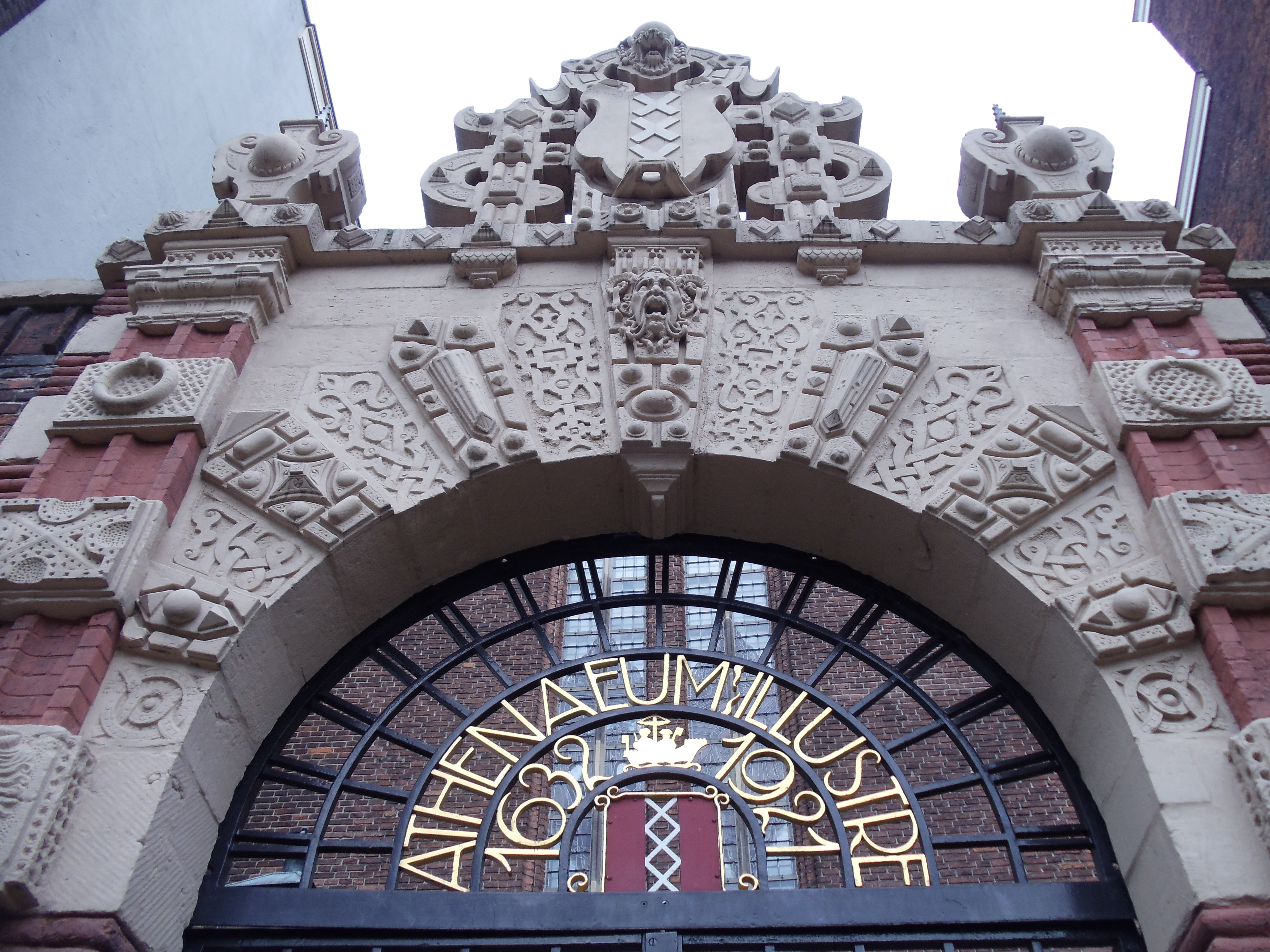 The gate to the Agnietenkapel, where the University of Amsterdam was founded as the Athenaeum Illustre in 1632